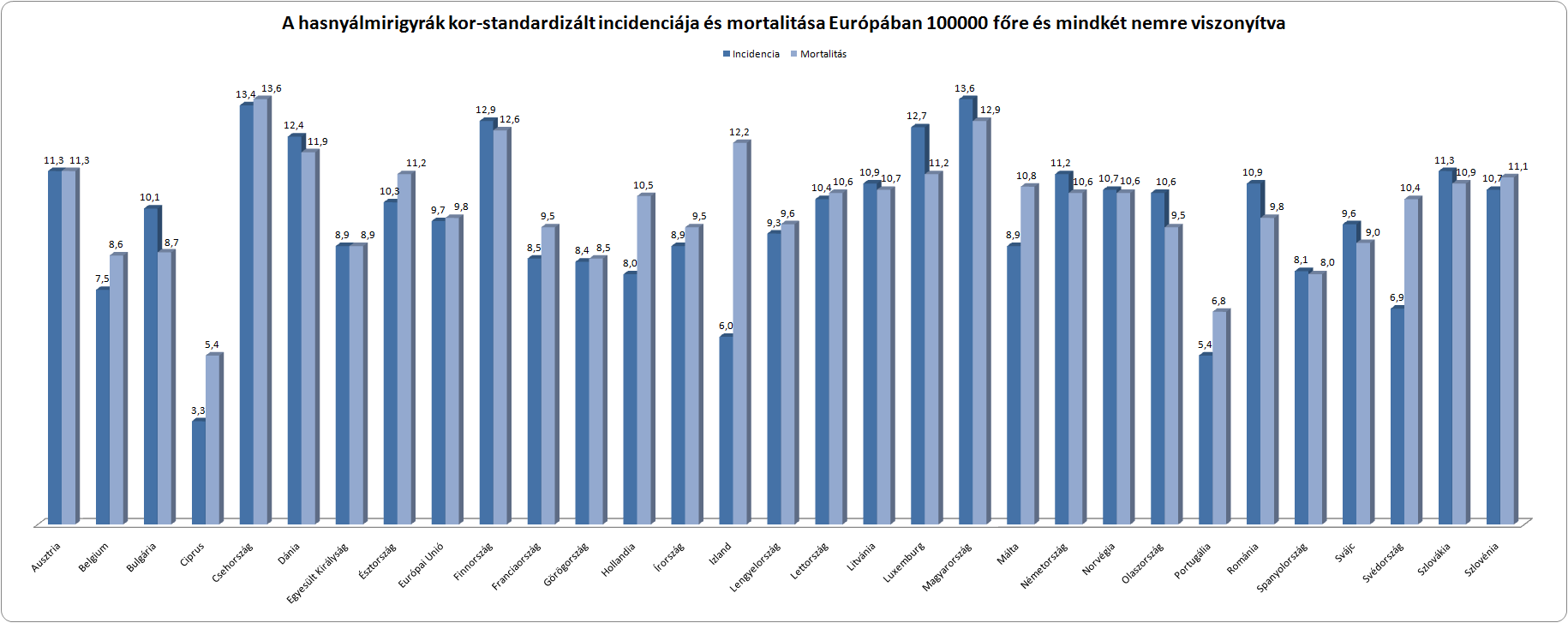 Estimated incidence and mortality from Pancreas cancer in both sexes, 2008; Age Standardised Rate (European) per 100,000.